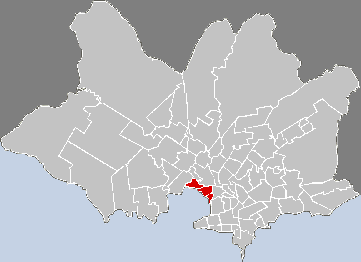 Map highlighting the given barrio in Montevideo.